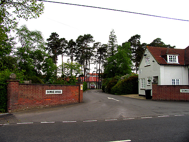 The Downe House School. This school has an excellent reputation and produces very good A level results. The school occupies the south eastern section of the grid square. It is surrounded by woodland and industrial/commercial and residential area.